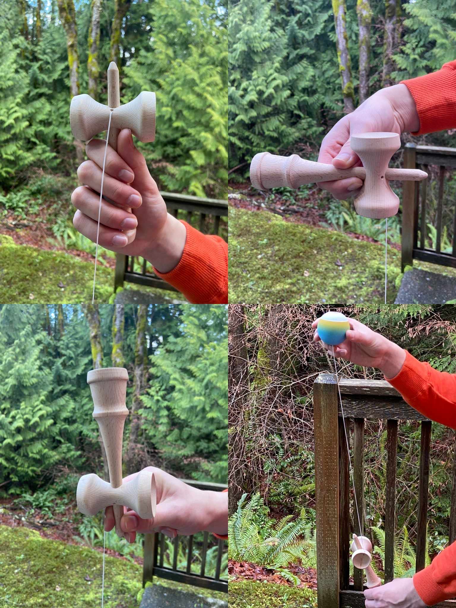 4 different grips a person can hold a kendama a with